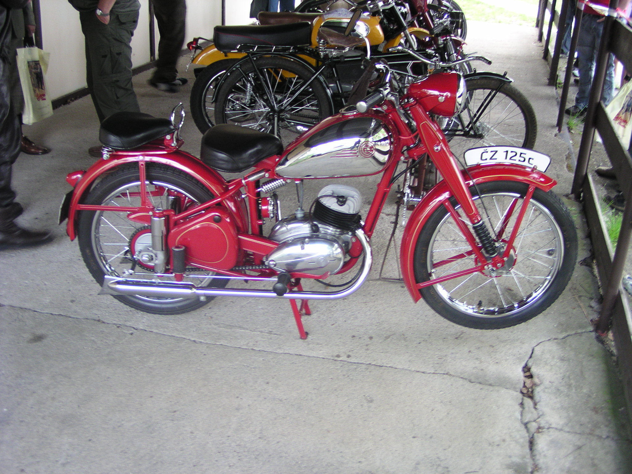 CZ 125 C (Veteran Rallye Krivonoska 2009)